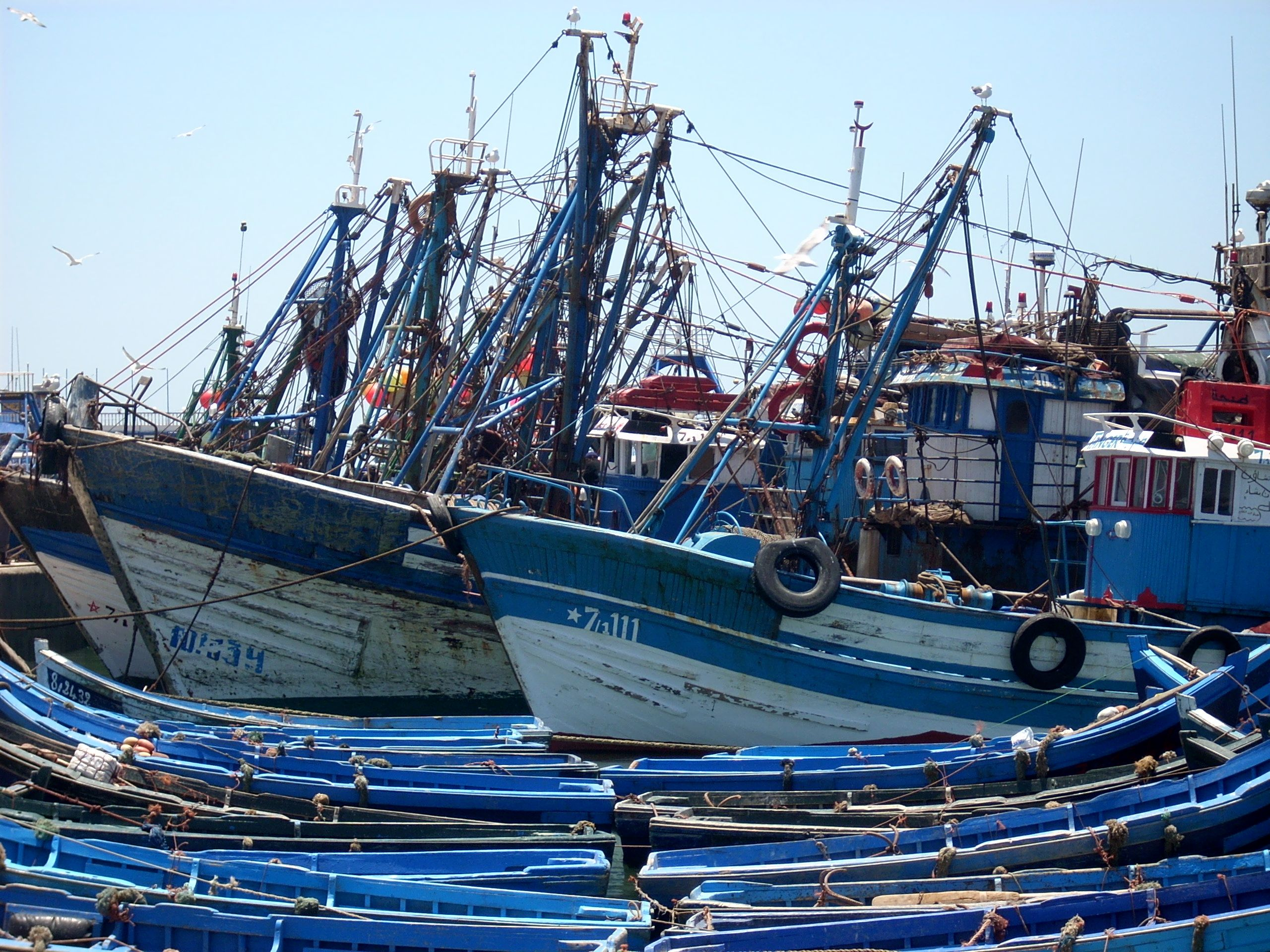 Fishing Port in Essaouira, Marocco